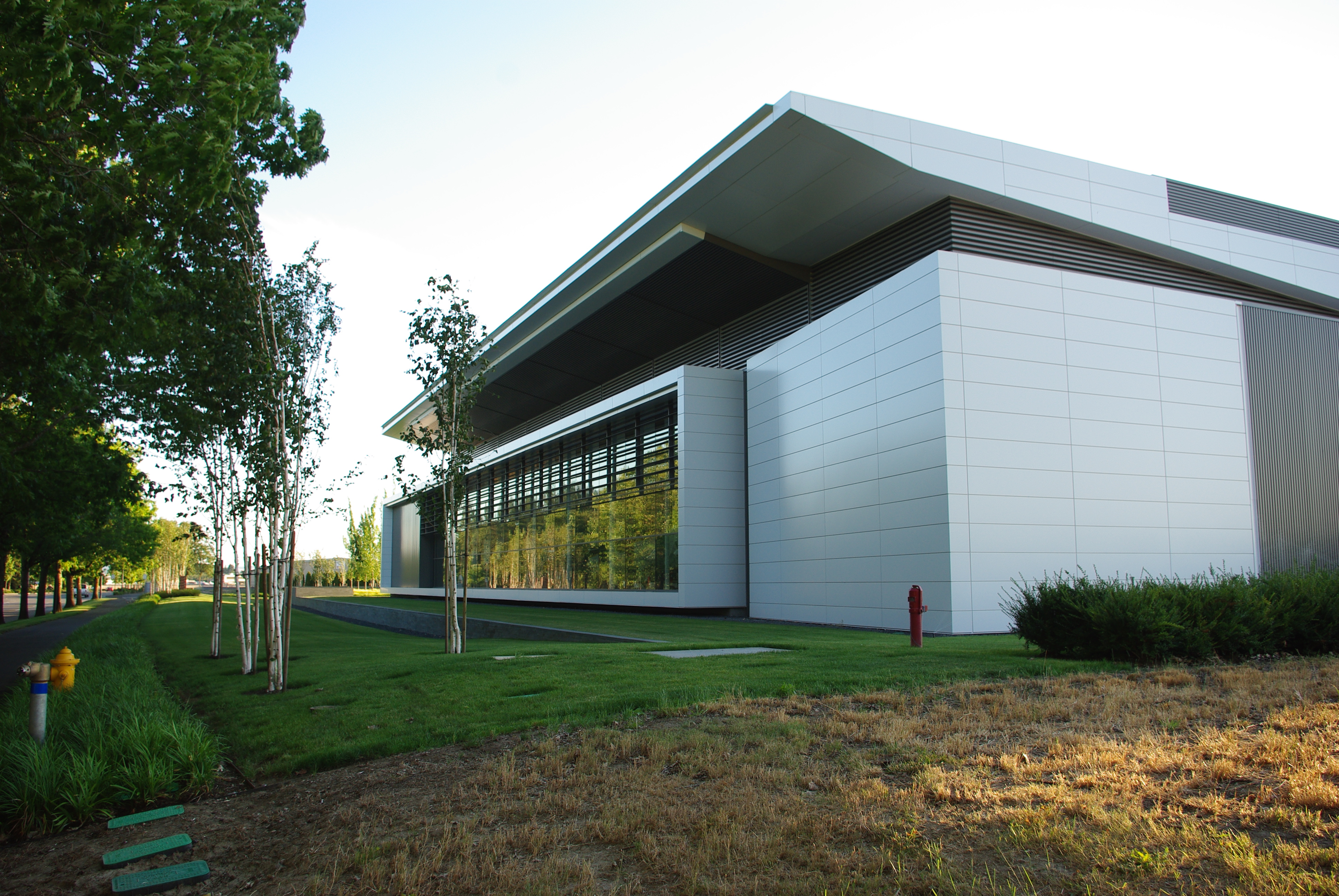 Philip Knight's personal hangar at the Hillsboro Airport in Hillsboro, Oregon. It was built in 2014.